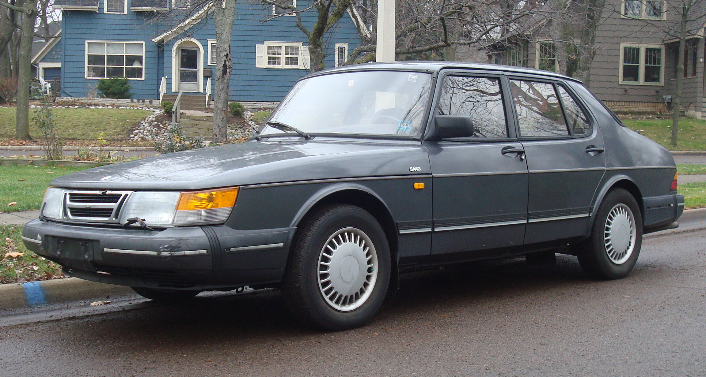 Facelifted 1987-93 Saab 900 sedan (US)